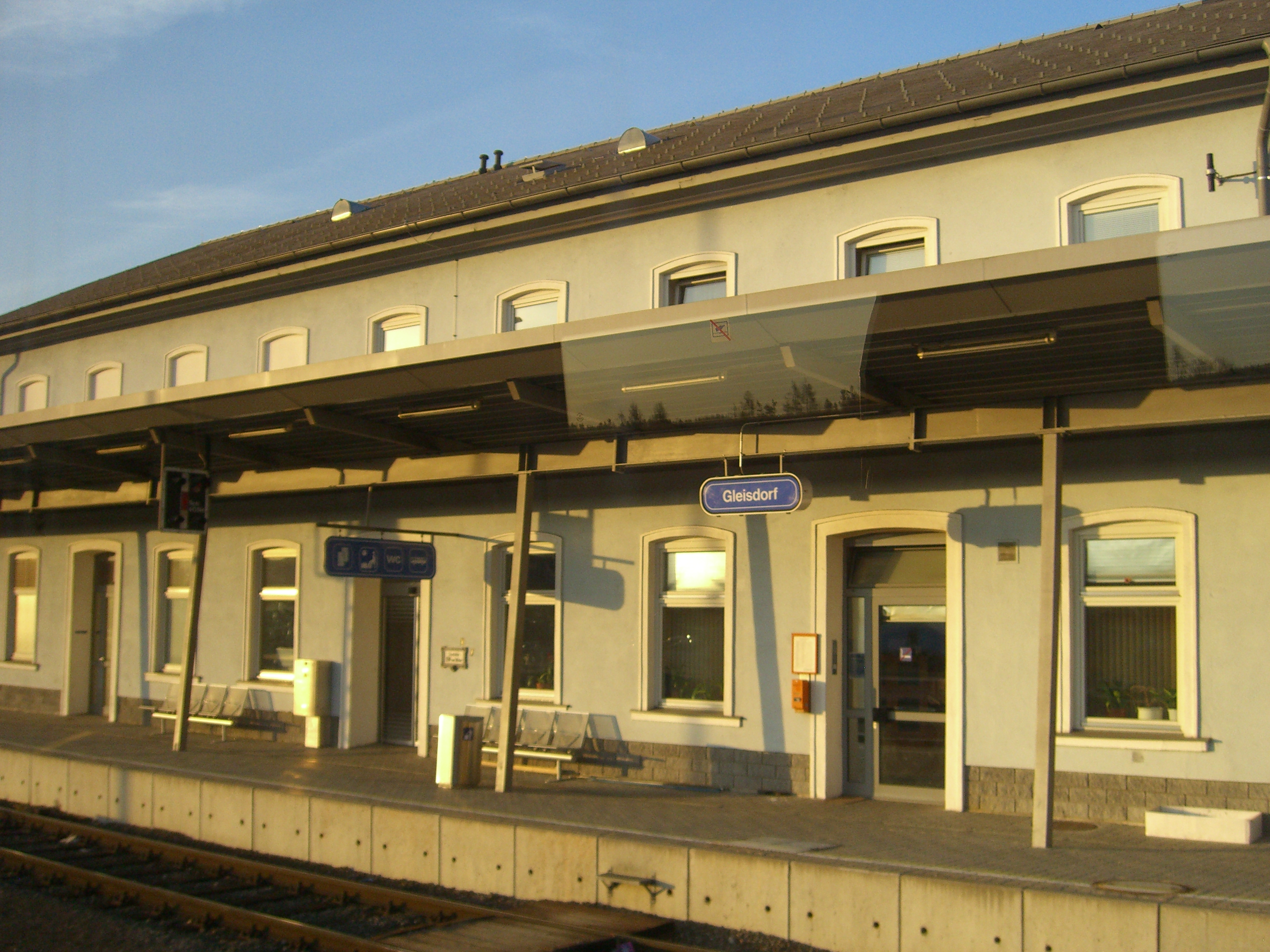 Gleidorf's railway station Boarisch: Da Bounhof vo Gleisdorf vo di Gleis aus gsehn.